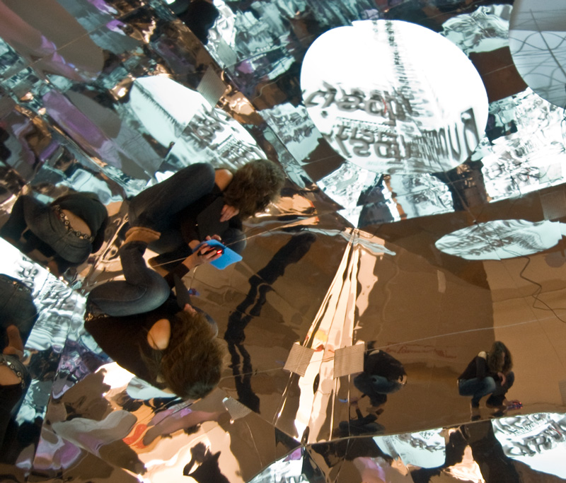 Sylvia Eckermann, Portrait in Installation Spiegelzellen, Ars Electronica 2007